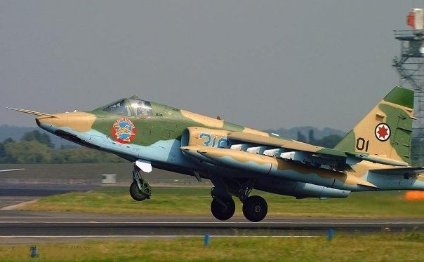 SU-25KM Scorpion - georgian made ground-attack aircraft